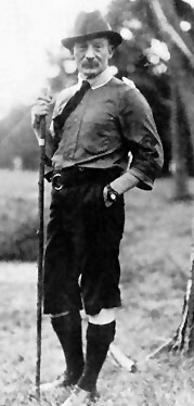 Robert Baden-Powell, at the first Scout encampment, August 1907, Brownsea Island, England.